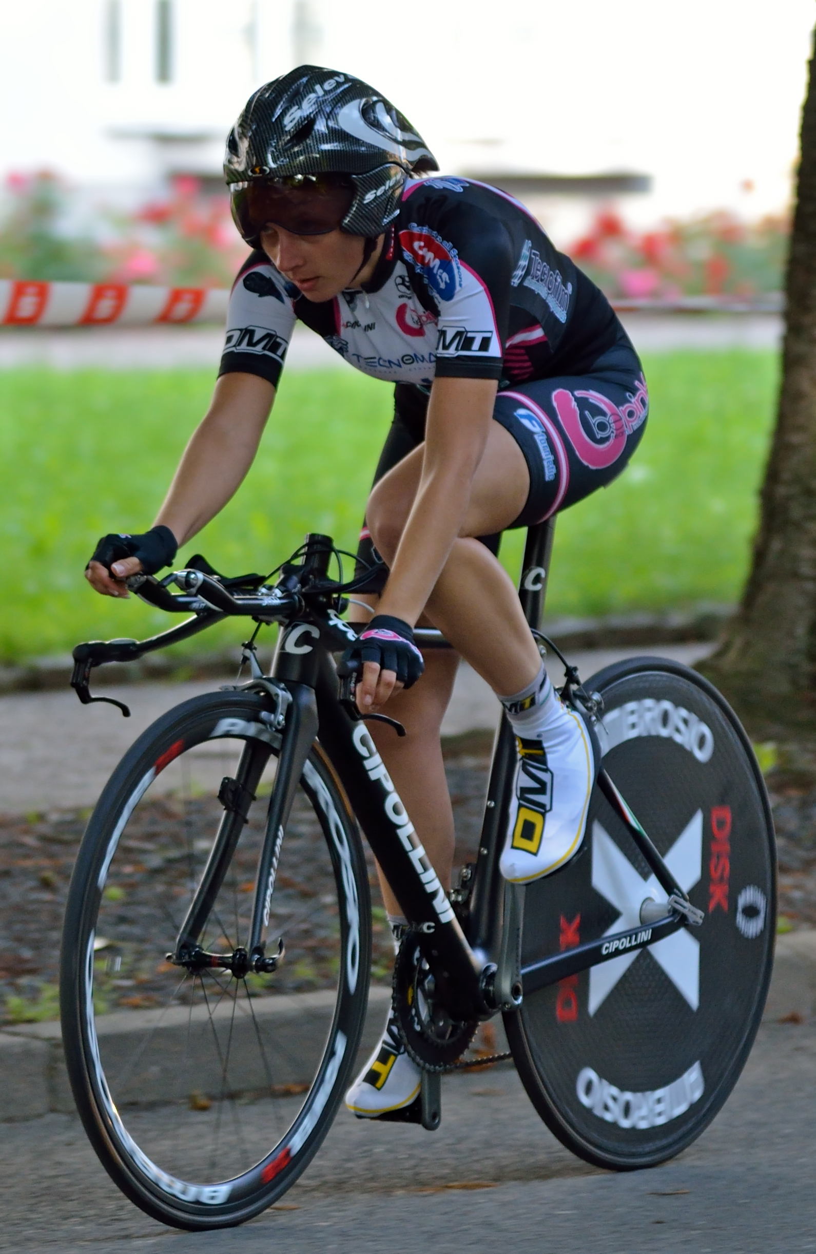 Elke Gebhardt from the Be Pink team during the Women's Tour of Thuringia 2012 in Zwickau, Germany.